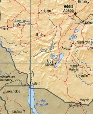 Shaded relief map of Omo in Ethiopia.